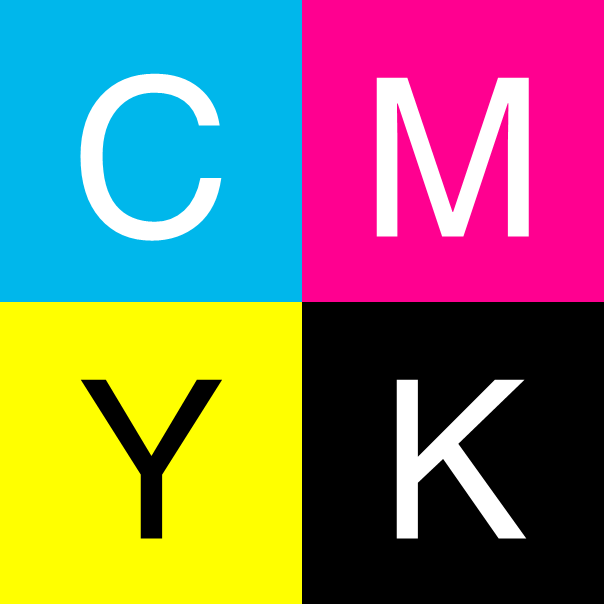 A diagram of the CMYK colour model, intended to be used in the Wikipedia article "CMYK color model" as a high quality illustration. Note that this image uses extremely inaccurate colors. See CMYK color model for a better image.